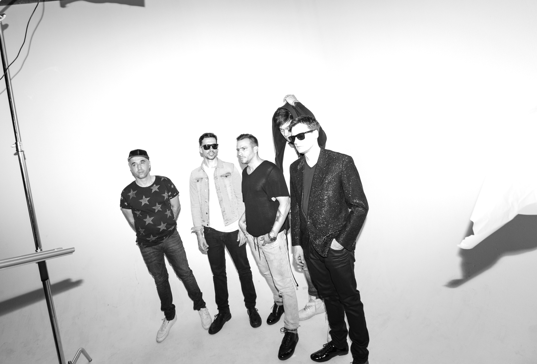 Picture of the band members from Lavagance